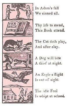 New England Primer pages, A to M published about 1750 in Bosotn Source: "Education Spelled Freedom" article by Mary Updegraff at the Stamford Historical Society Web site (Stamford, Connecticut) cropped from File:NewEnglandPrimerAtoM.jpg PD public domain pre 1923